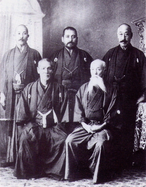 From right to left: Takano Sasaburo (Itto Ryu), Monna Tadashi (Hokushin Itto Ryu), Naito Takaharu (Hokushin Itto Ryu), Tsuji Shinpei (Shingyoto Ryu), and Negishi Shingoro (Shindo Munen Ryu)